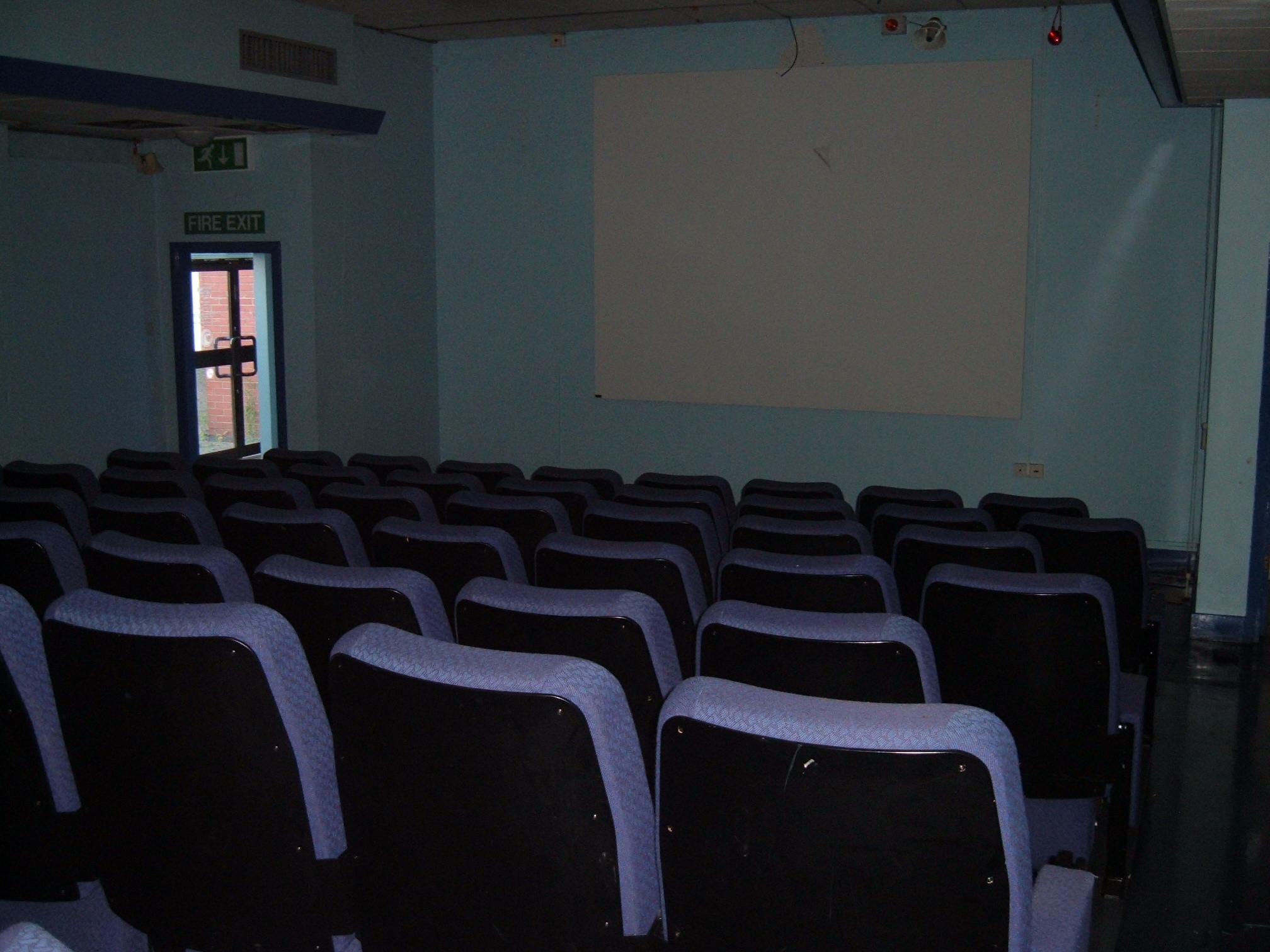 The Movie Theater US Navy MWR at RAF West Ruislip